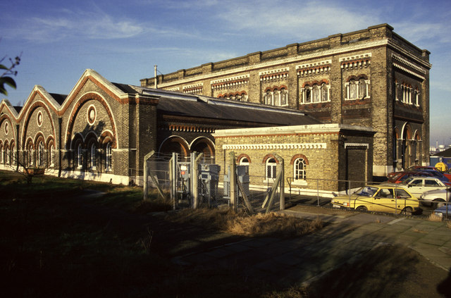 Cathedral of Sewage My own view of the Grade I listed Southern Outfall pumping station at Crossness. Home to the four largest beam engines in the country and worthy of a small book in its own right. The building closest is the boiler house, now workshops and exhibition space. In there there is a 1/4" to the foot model of the boiler house as it was latterly (after modernisation). The place has amazing cast iron work too and is well worth a trip to a relatively remote location within the M25's orbit.